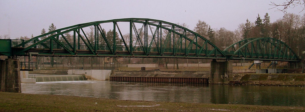 Opole, bridge on the Bolko Island (Oder River)